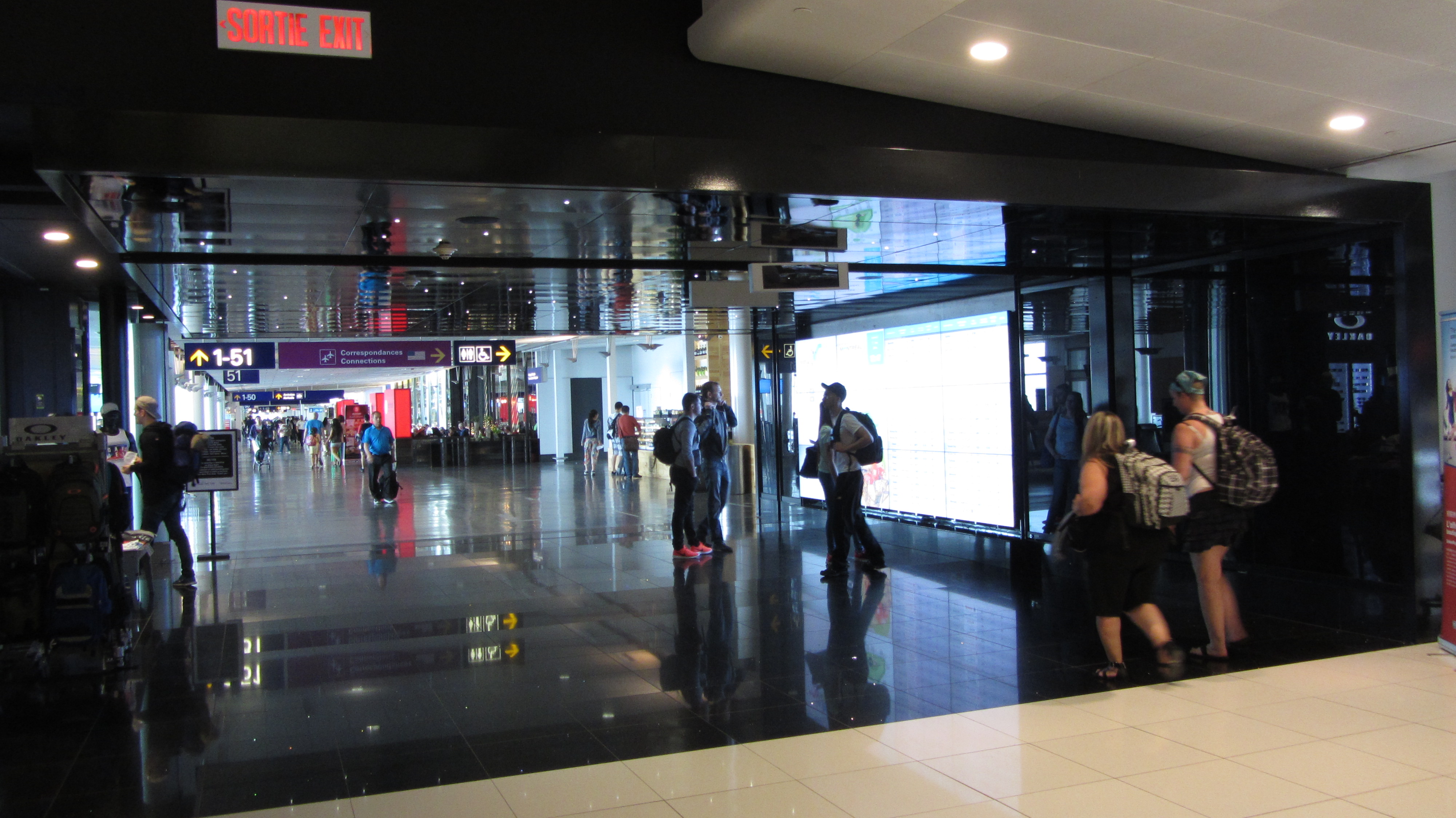 The international jetty in Montréal-Trudeau